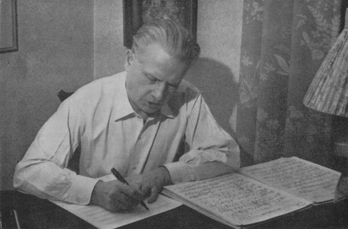 Photograph of the Finnish composer Heikki Aaltoila (1905–1992).